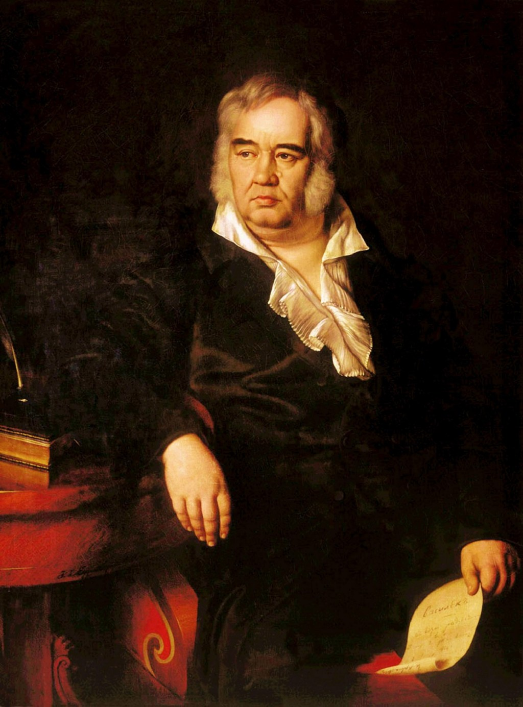 Portrait of Ivan Krylov